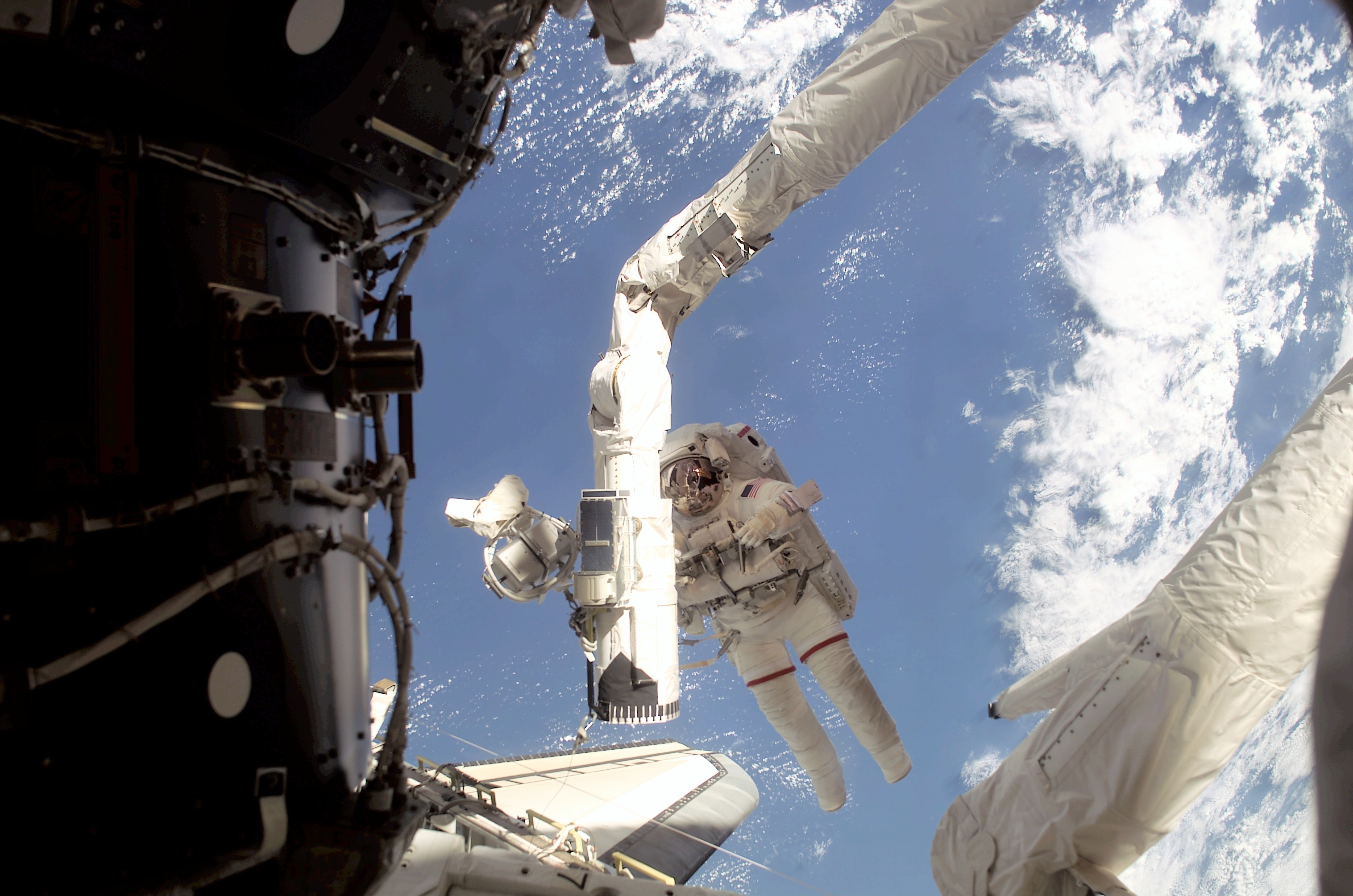 Astronaut Linda M. Godwin, STS-108 mission specialist, is pictured near the end of the Space Shuttle Endeavour's remote manipulator system (RMS) arm during the four-hour session of extravehicular activity (EVA). Astronaut Daniel M. Tani (out of frame), mission specialist, joined Godwin on the space walk. The image was taken with a digital still camera.